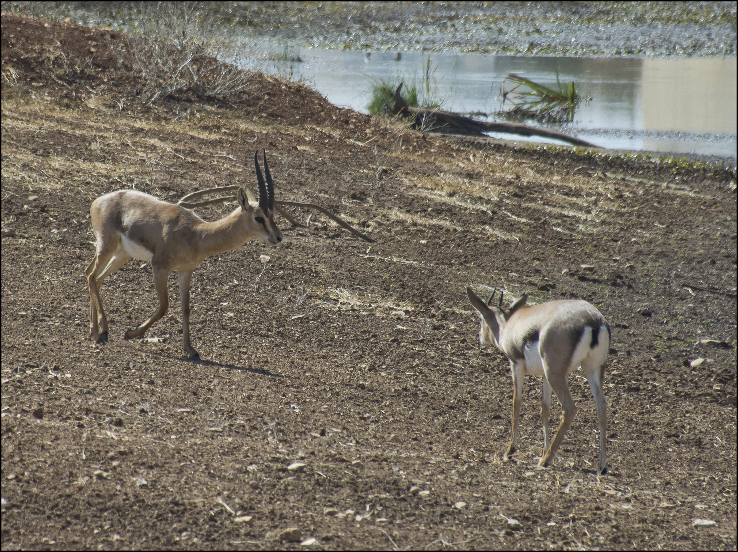 Israeli Gazelle (Gazella gazella gazella), Gazelle Valley, Jerusalem, Israel